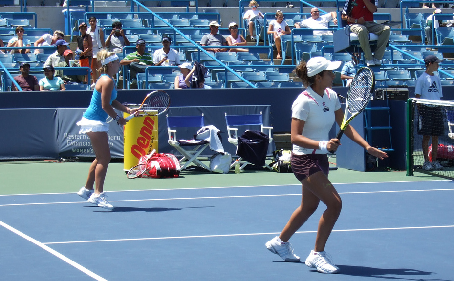 Bethanie Mattek (left) and Sania Mirza (right) in the process of winning the Western & Southern Financial Group Women's Open doubles tournament in Cincinnati (2007).